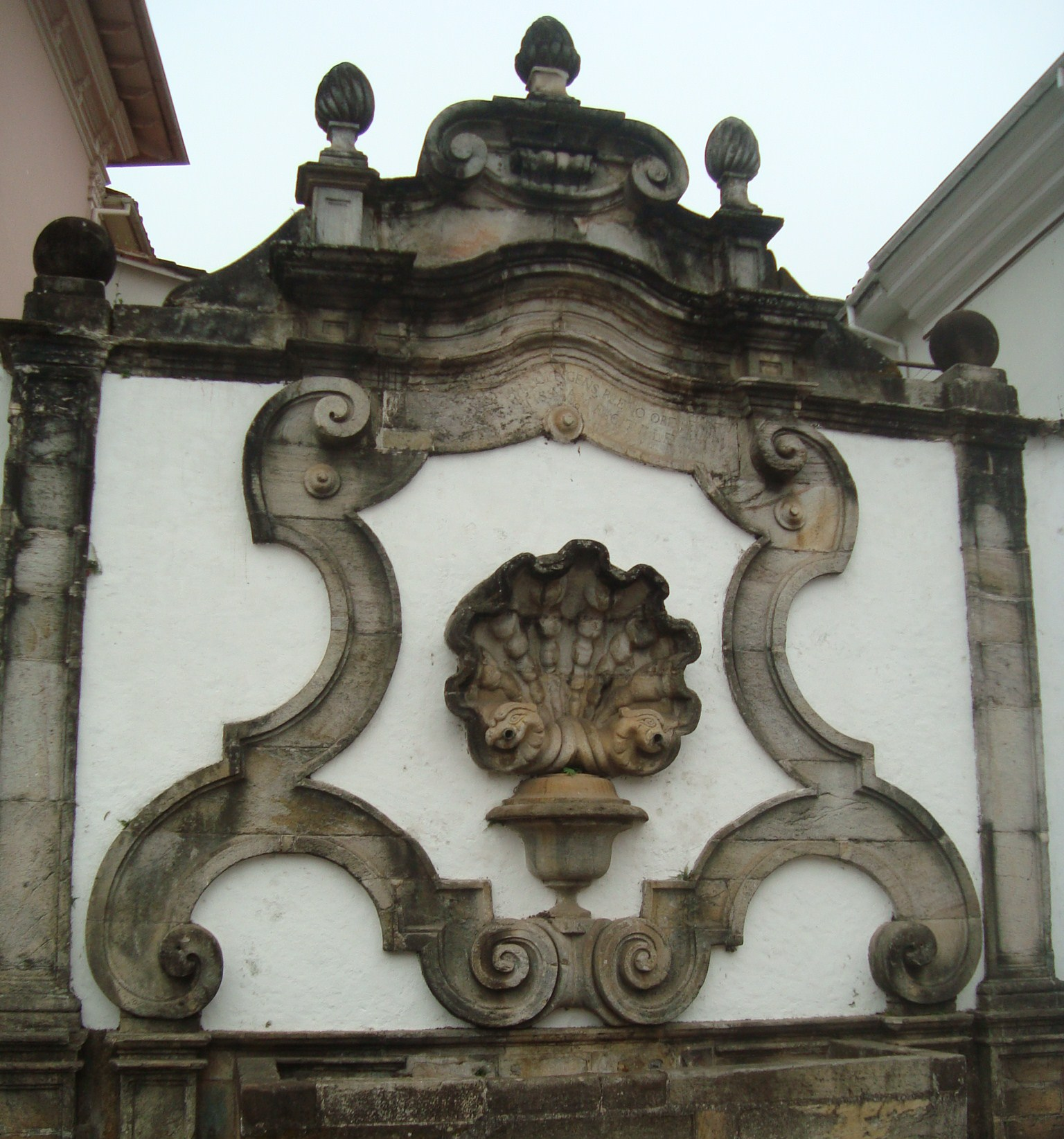 Water fountain near Casa dos Contos in Ouro Preto, Minas Gerais, Brazil